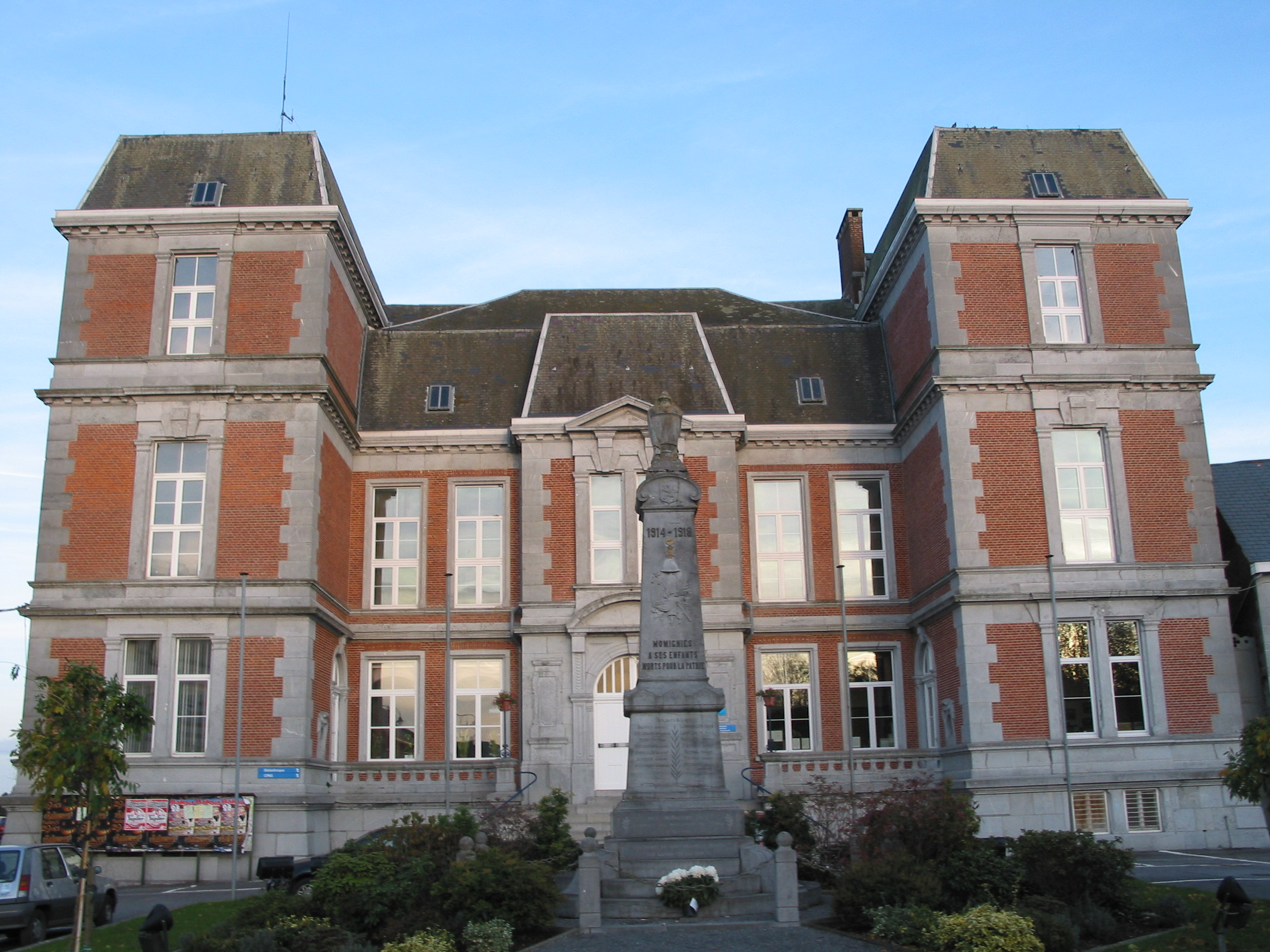 Momignies (Belgium), the town hall and the memorial to victims of the First World War.